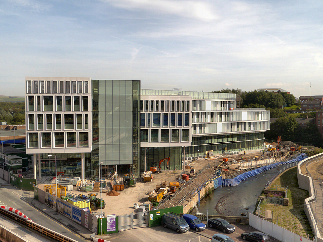 Number One Riverside, under construction, in Rochdale, Greater Manchester, England.